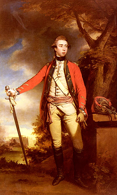 Portrait of George Townshend, Lord Ferrers, in uniform of the 15th Kings light Dragoons, standing full length